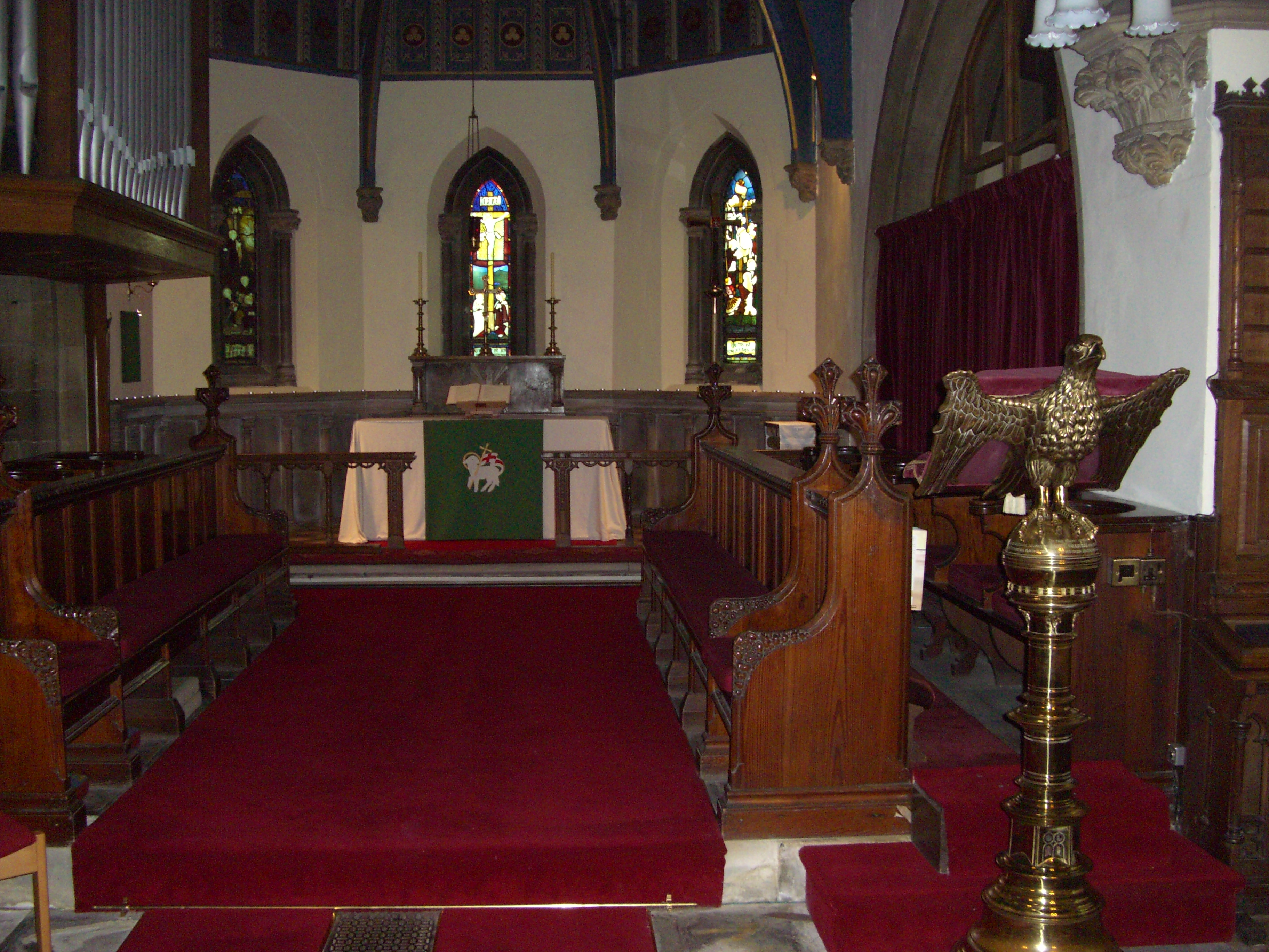 The sanctuary area of St John the Baptist parish church in Alnmouth, Northumberland, England.